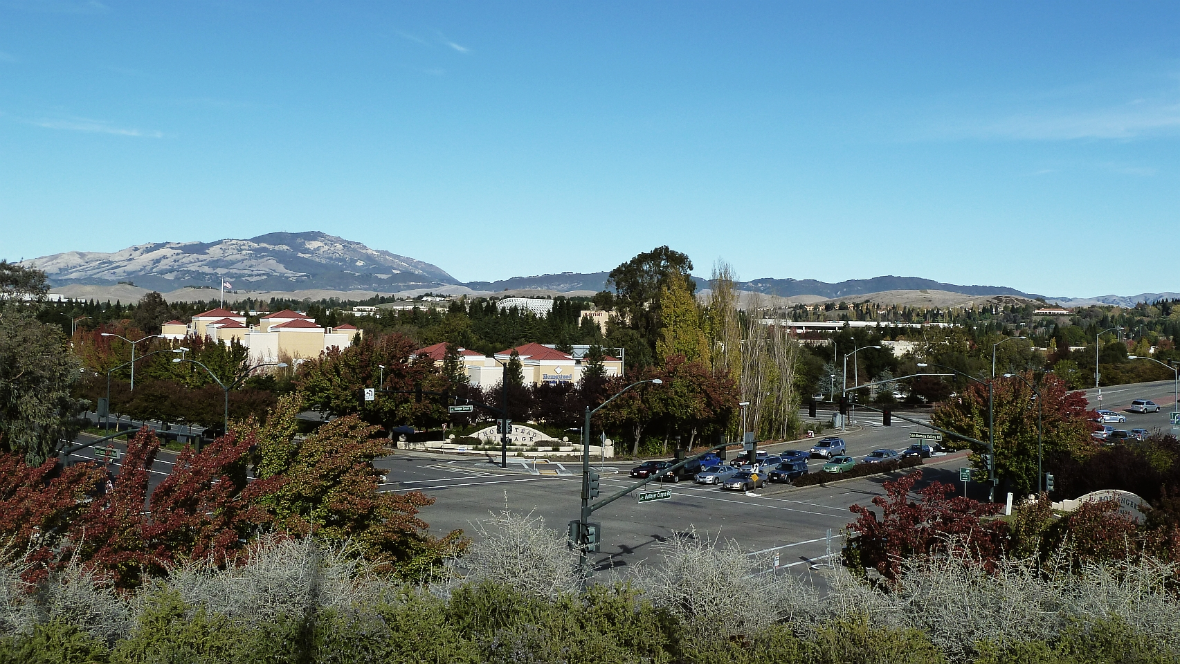 A view of San Ramon, USA, taken from Memorial Park on a late autumn afternoon.